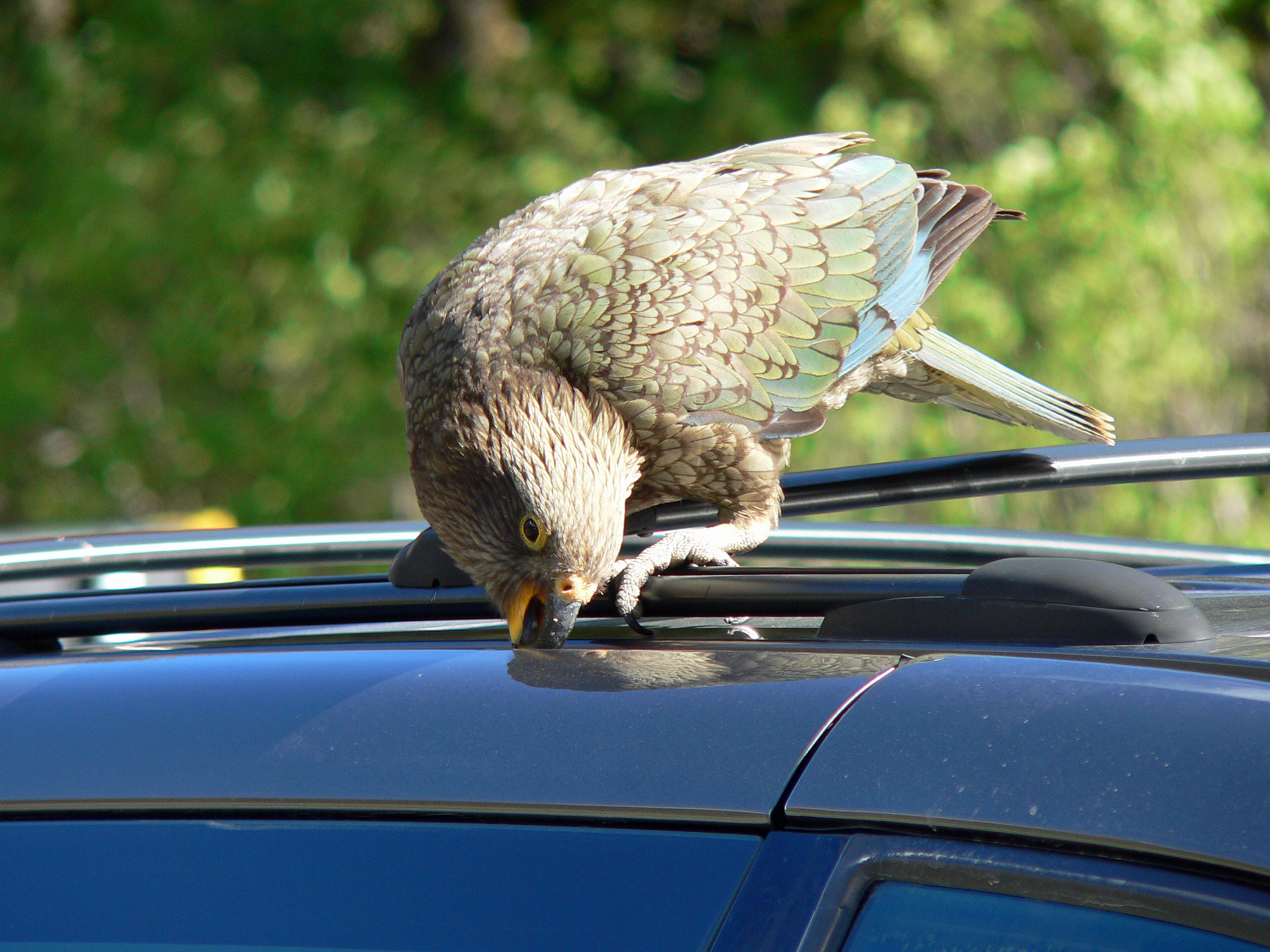 Kea 'examining' a car